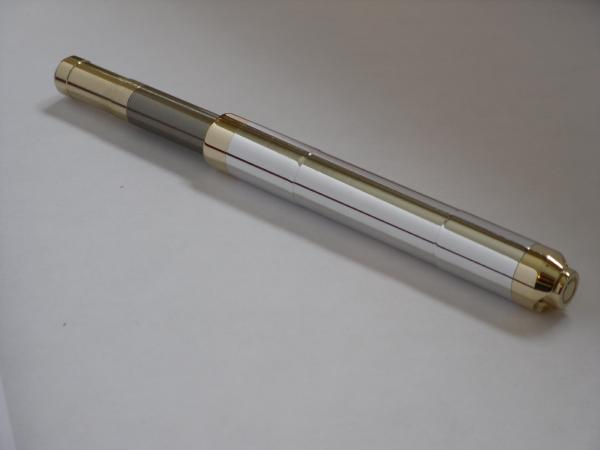 Super-T Manufacturing's all mechanical, wireless, solderless electronic cigarette